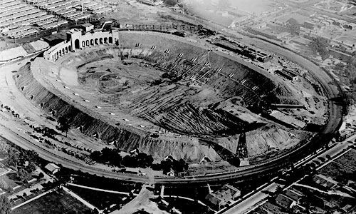 An old picture of the Los Angeles Memorial Coliseum under construction in 1922. The large stadium was built in less than two years, from December 1921 to May 1, 1923. Category:Images of Los Angeles, California